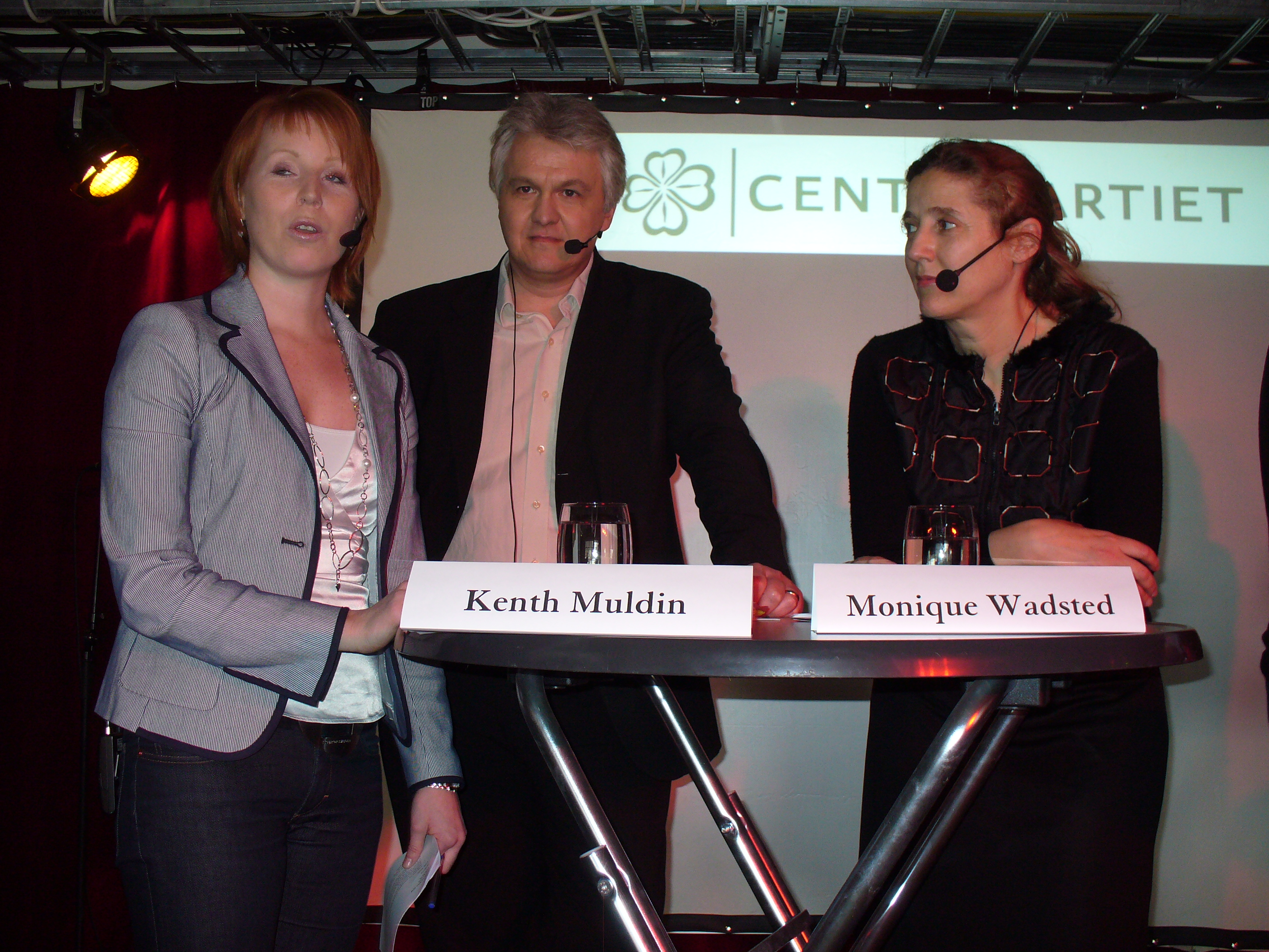 Annie Johansson (Swedish Centre Party politician), Kenth Muldin (CEO of STIM) and Monique Wadsted (lawyer) debating copyright in Stockholm 2008.